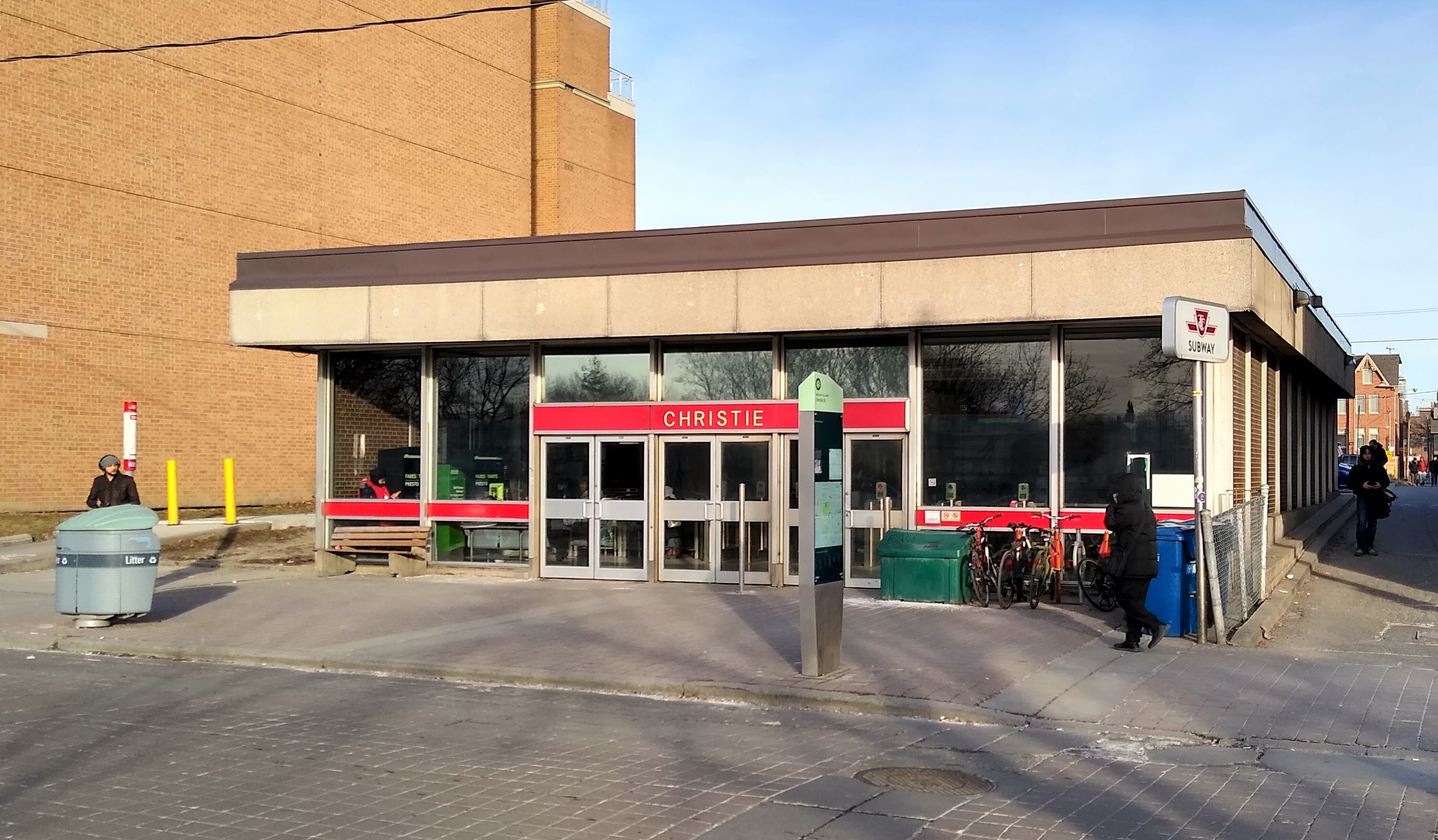 The Christie subway station in Toronto, Canada.